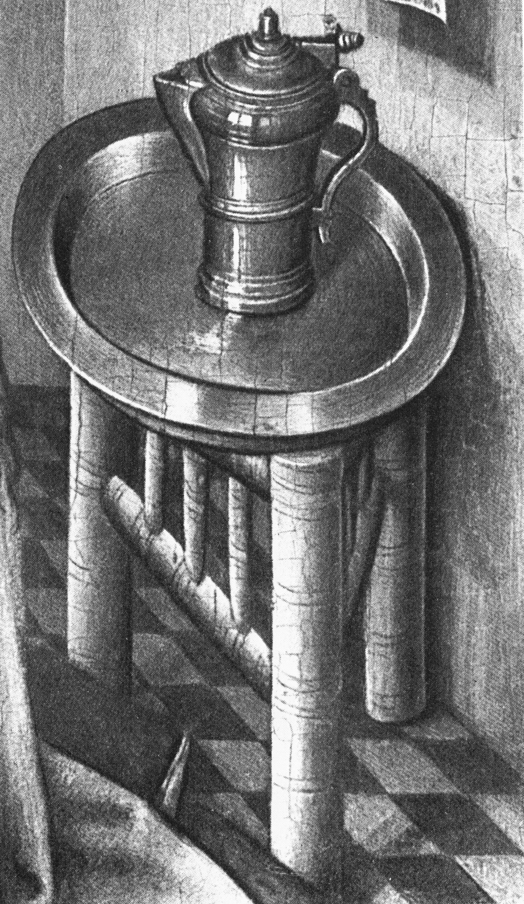 St. Mary with child, painting by Master of Flemalle, Leningrad, Eremitage. Detail: Lavabo. About 1438